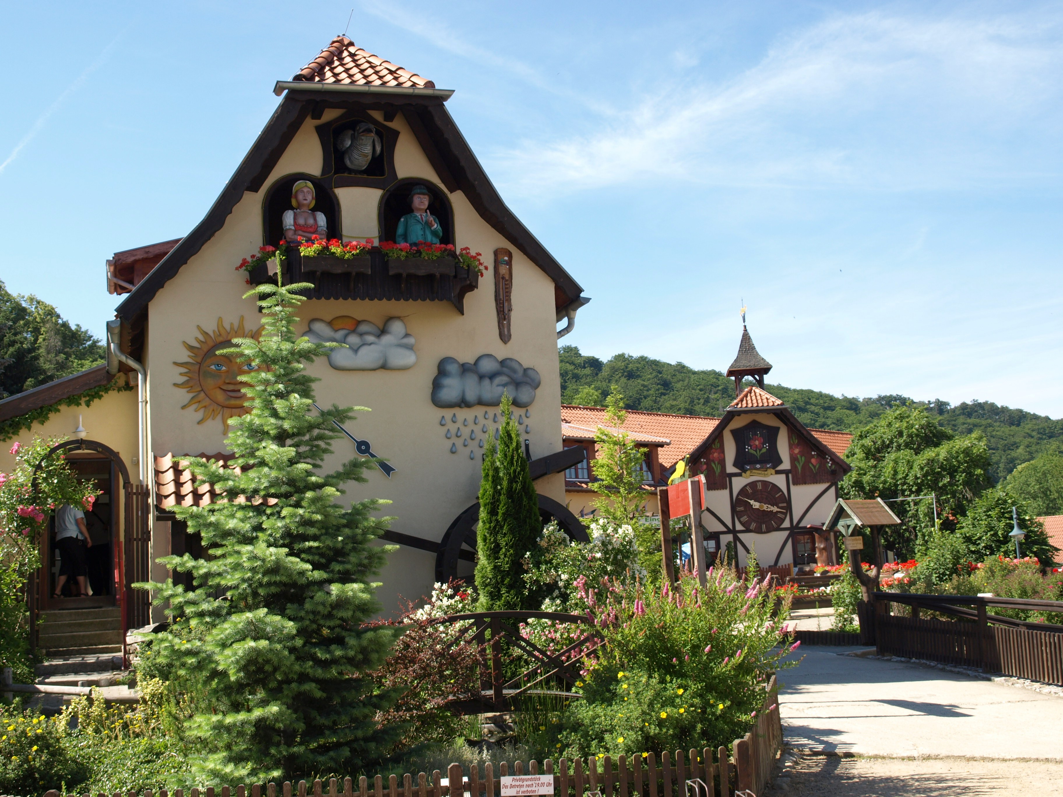 Harzer Uhrenfabrik (factory of cuckoo clocks) in Gernrode Saxony-Anhalt